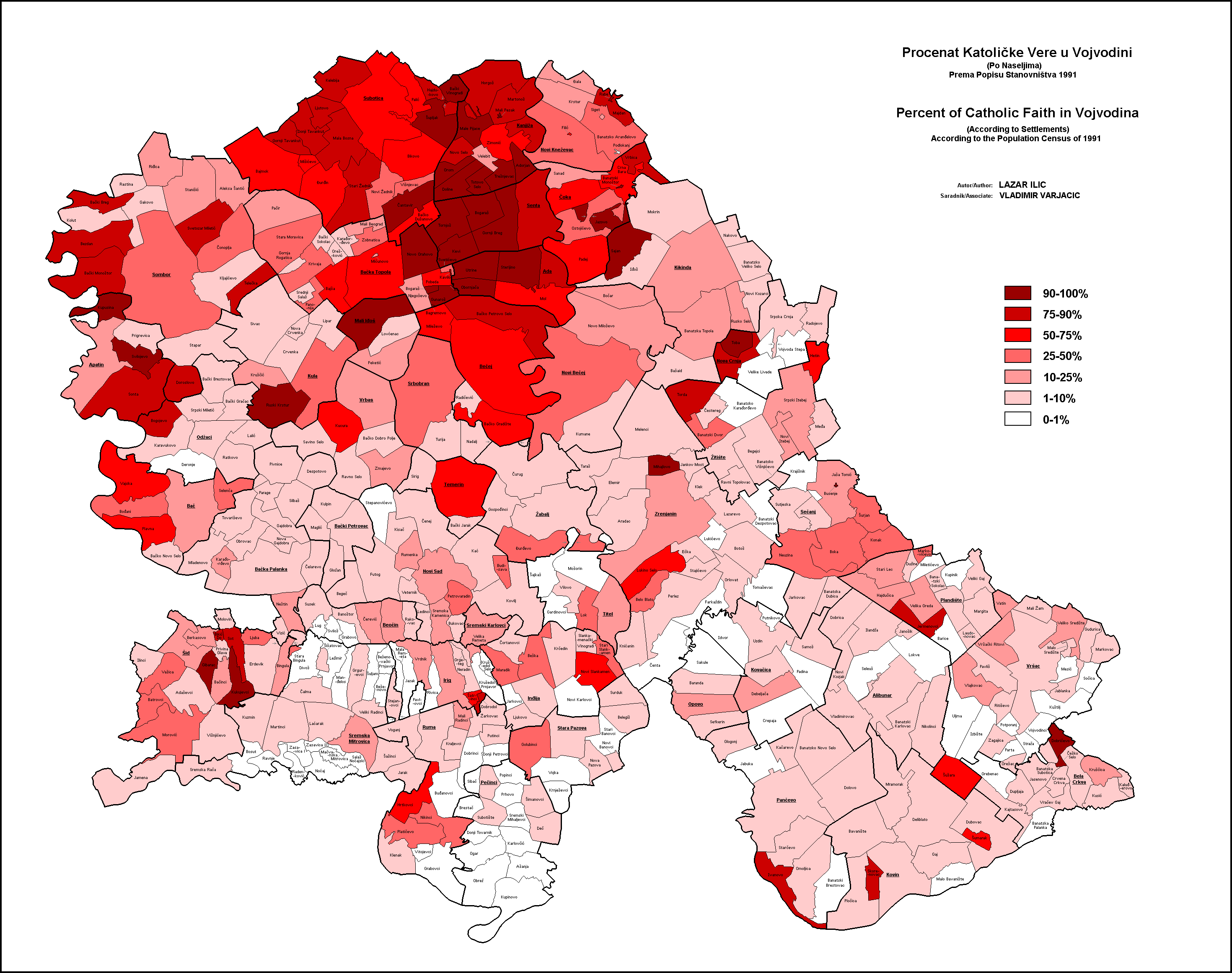 Ethnic map showing percent of Catholics in each settlement in Vojvodina.